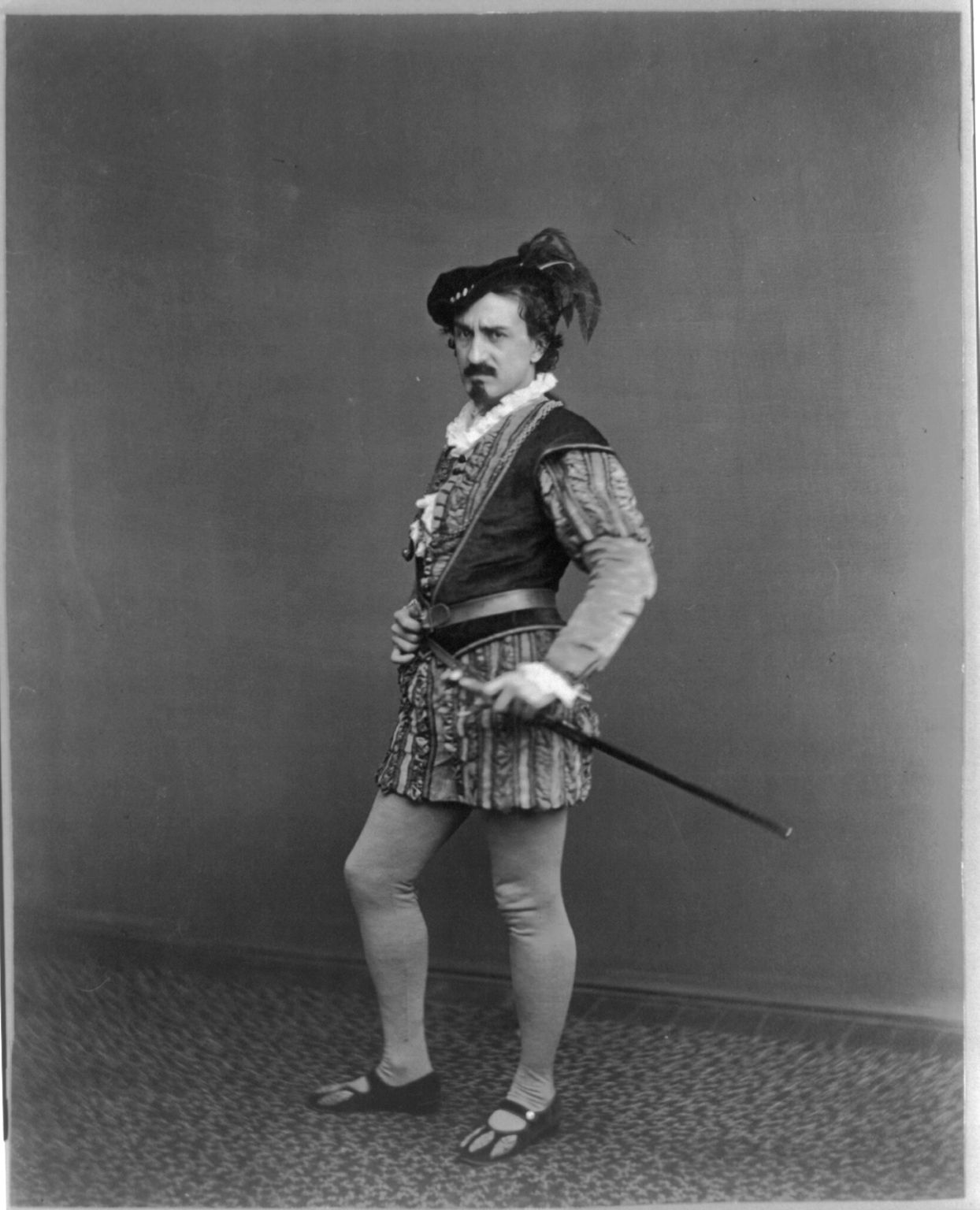 Photographic full-length portrait of Edwin Booth as Iago in Shakespeare's Othello, the Moor of Venice